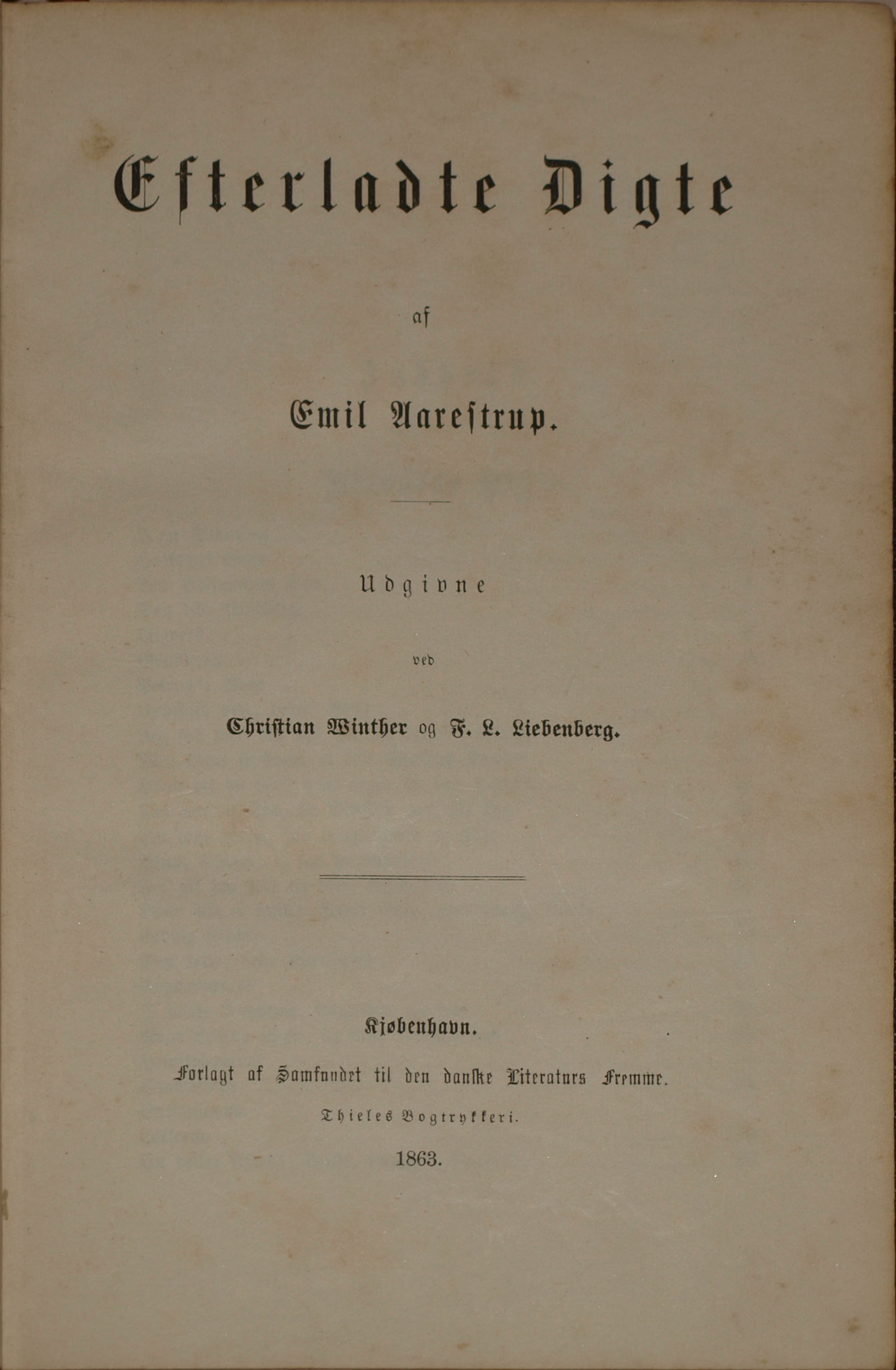 Emil Aarestrups "Efterladte Digte", udgivet i 1863.